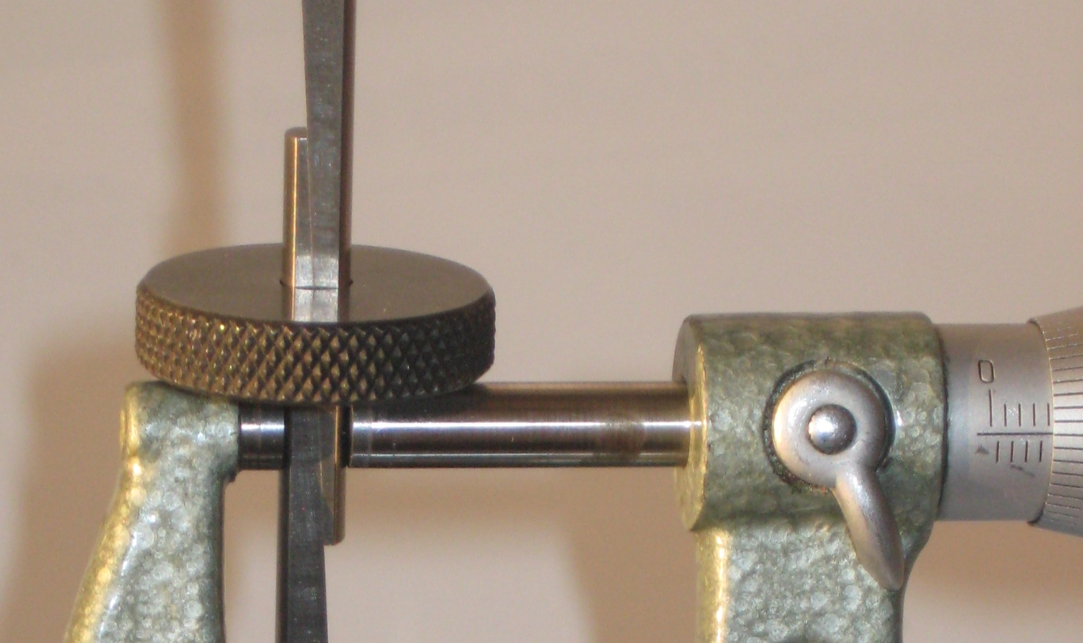 Measuring internal dimensions (bore) with taper parallels and micrometer